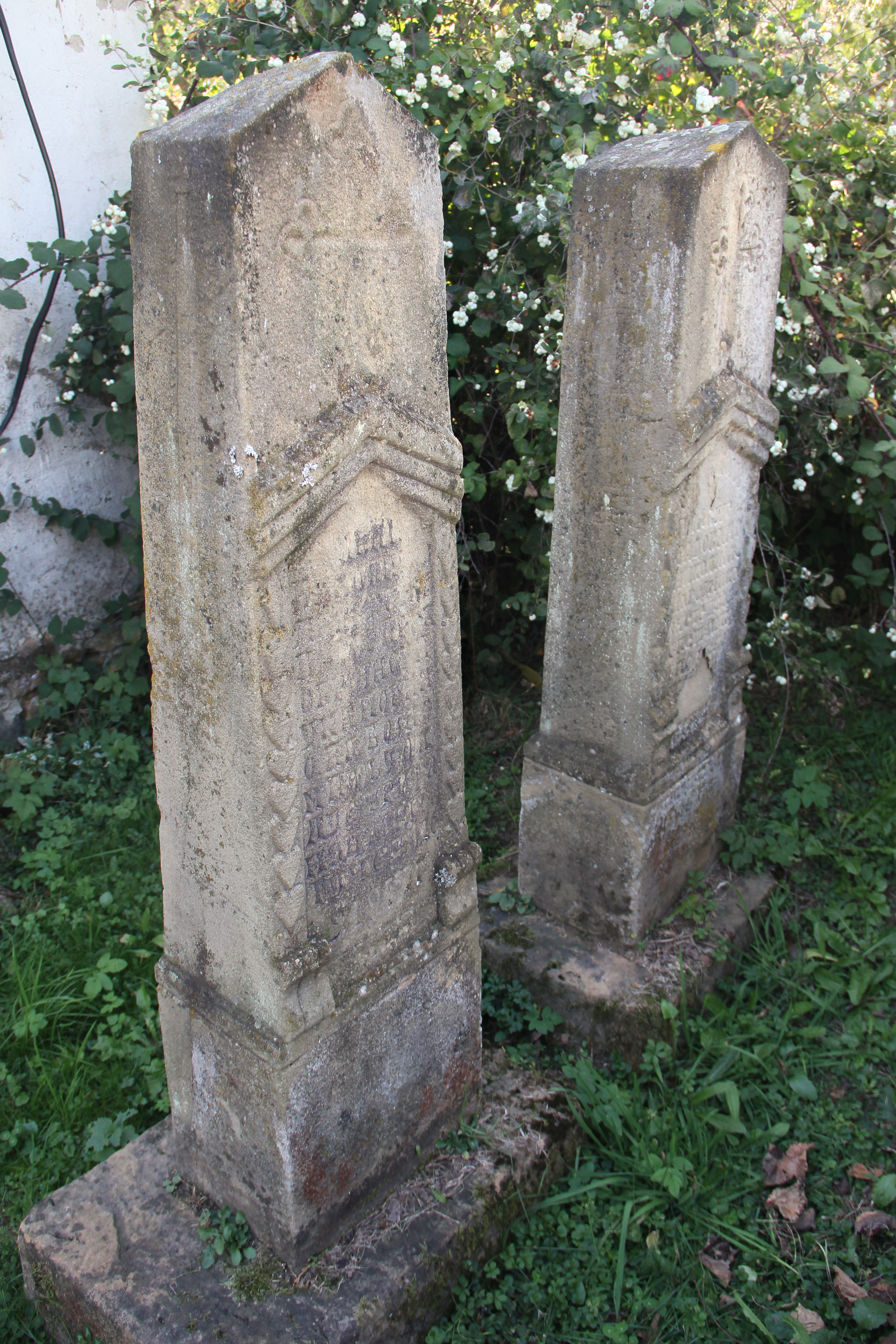 Roadside tombstones erected in memory of Zivan and Radovan Nikolic. It is located in the village of Srezojevci (the municipality of Gornji Milanovac), Serbia.